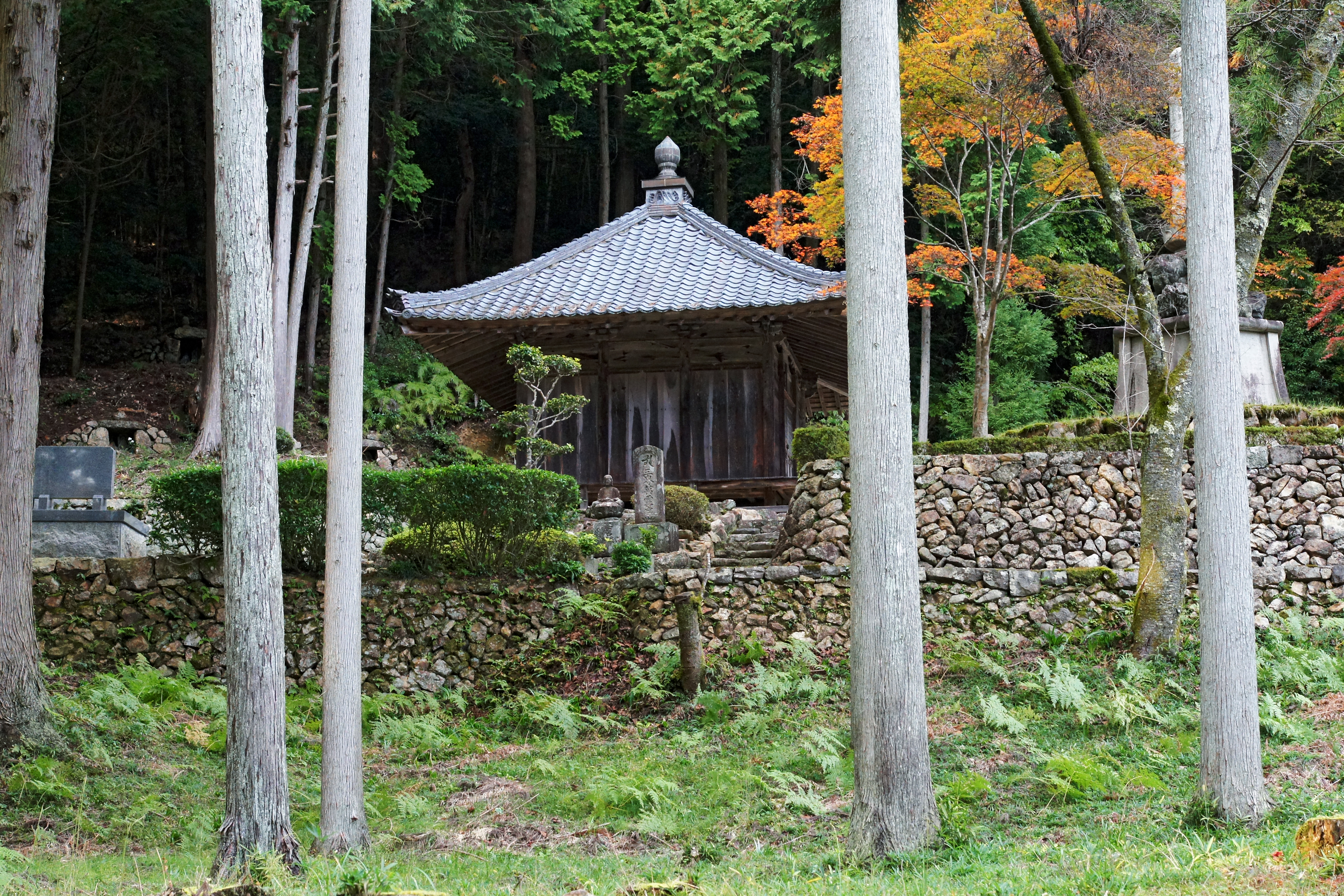 Horaku-ji in Kamikawa, Hyogo prefecture, Japan